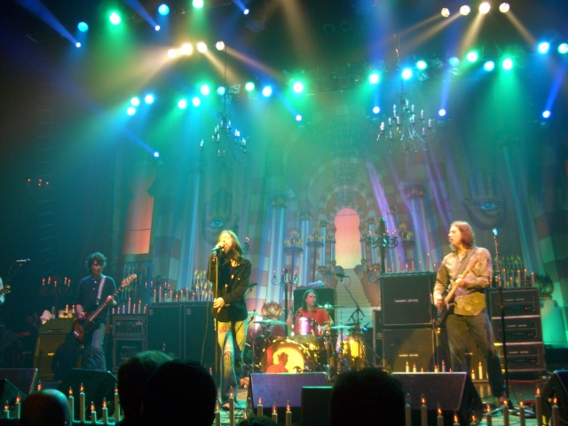 The Black Crowes live at the Hammerstein Ball Room, March 2005